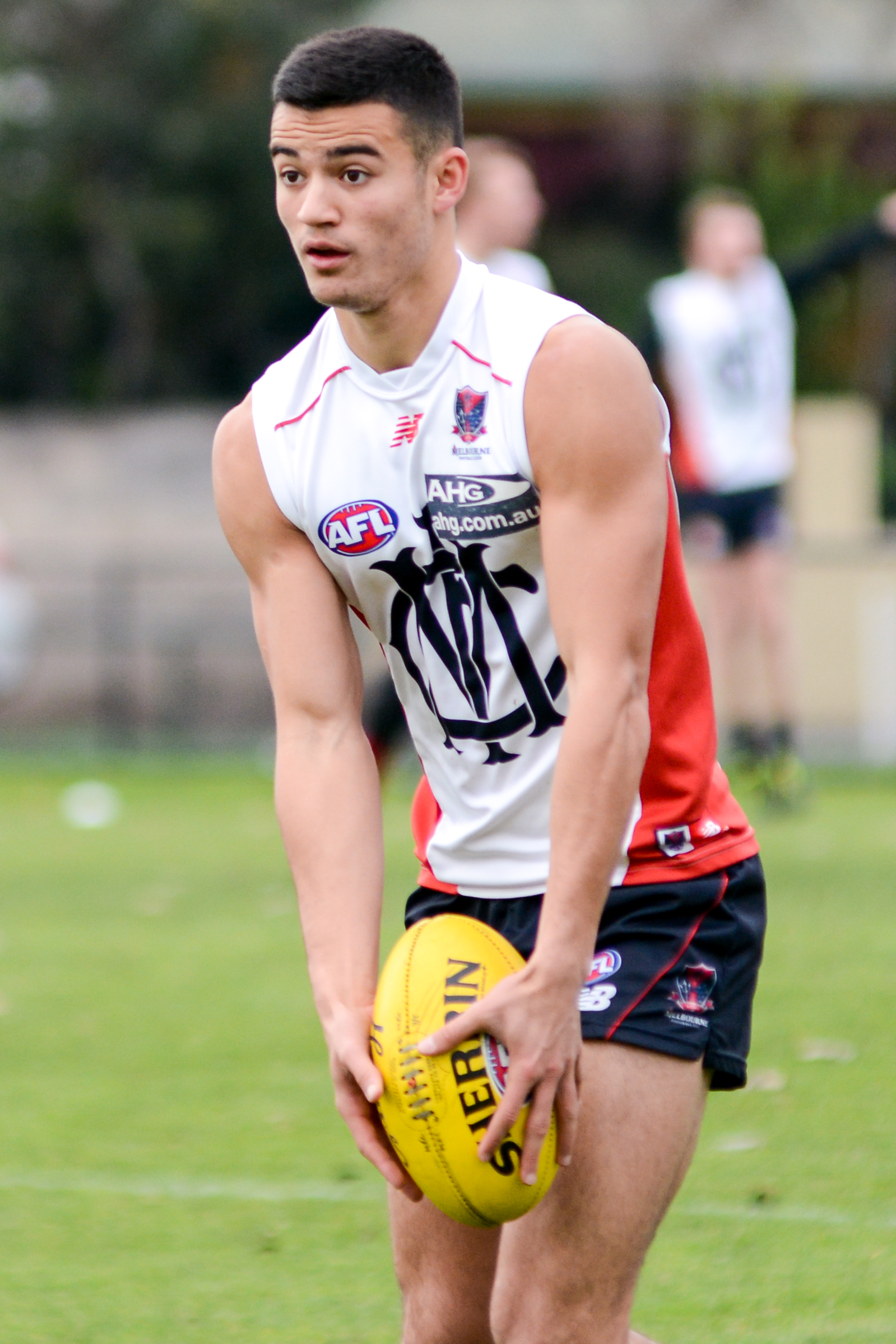 Billy Stretch at training during July 2015